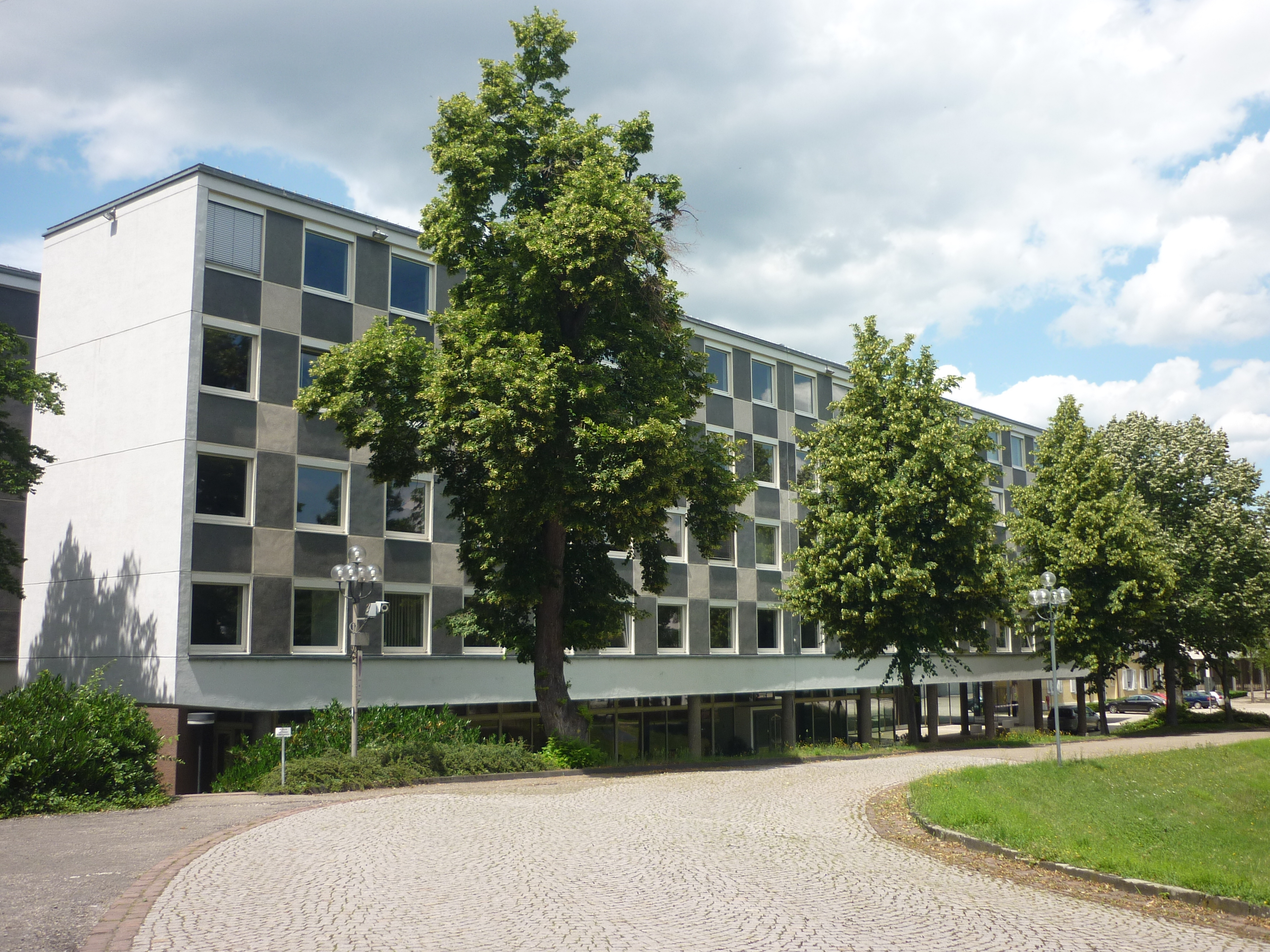 West building of the Federal Court of Justice of Germany, seen from main building, Karlsruhe